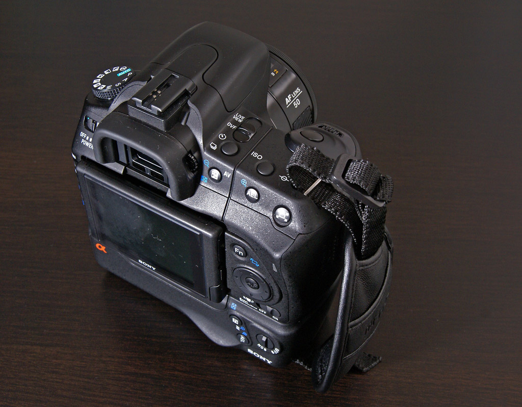 Sony Alpha 300 with vertical grip